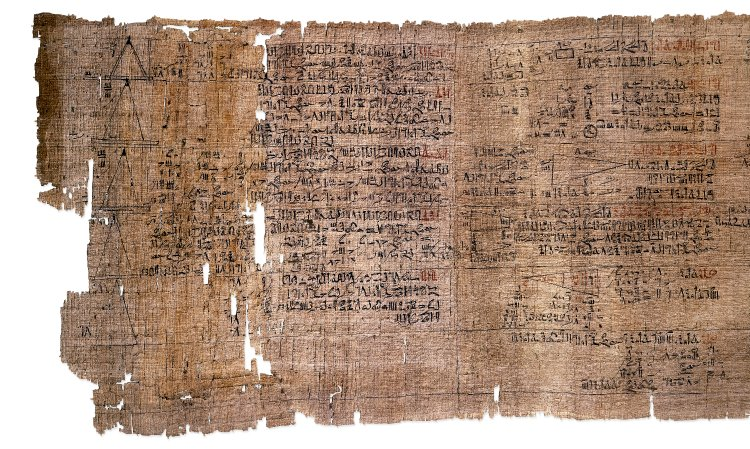 Rhind Mathematical Papyrus : detail (recto, left part of the first section British Museum, EA10057) Thebes, End of the Second Intermediate Period (c.1550 BC) Acquired by the Scottish lawyer A.H. Rhind during his sojourn in Thebes in the 1850s. length: 295.5 cm, width: 32 cm (whole section EA10057) British Museum Department of Ancient Egypt and Sudan A second section is kept in the British Museum (EA 10058 length: 199.5 cm, same width) Fragments of a small intermediate section (18 cm length) are kept in the Brooklyn Museum